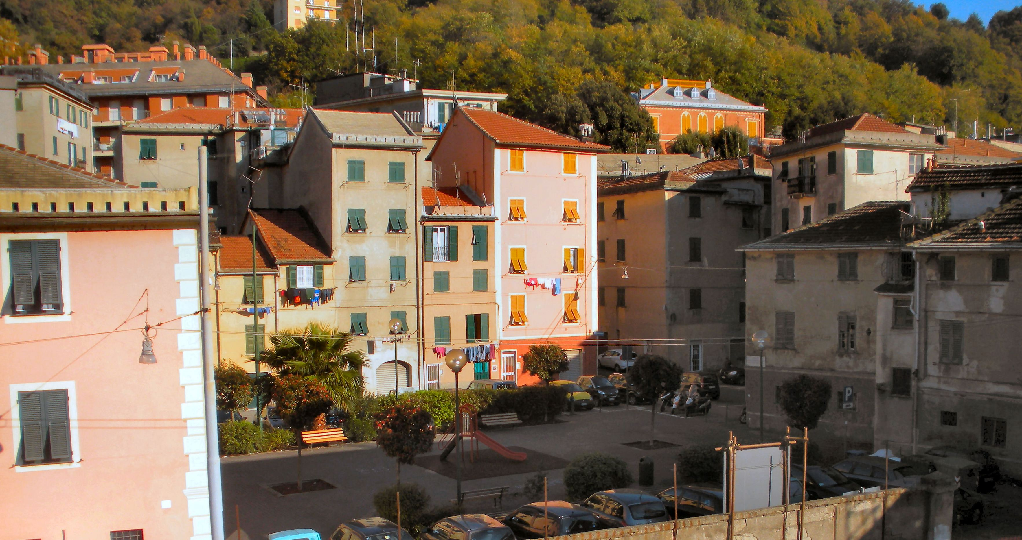 Genoa (Italy), quarter of Bolzaneto, Savi square